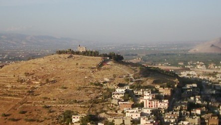 "The castle" of Majdal Anjar , located on the flat plateau called the al hosen.